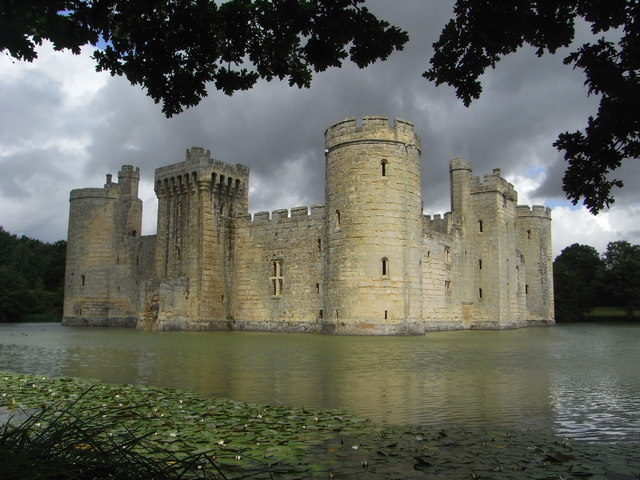 Bodiam Castle A day of sunshine and showers. Although disputes continue over whether this was a truly defensive castle or just a luxurious home with crenellations, to many people this is the archetypal medieval castle. The National Trust have an excellent film on the history of the site that helps to bring history to life for inhabitants of the 21st century.